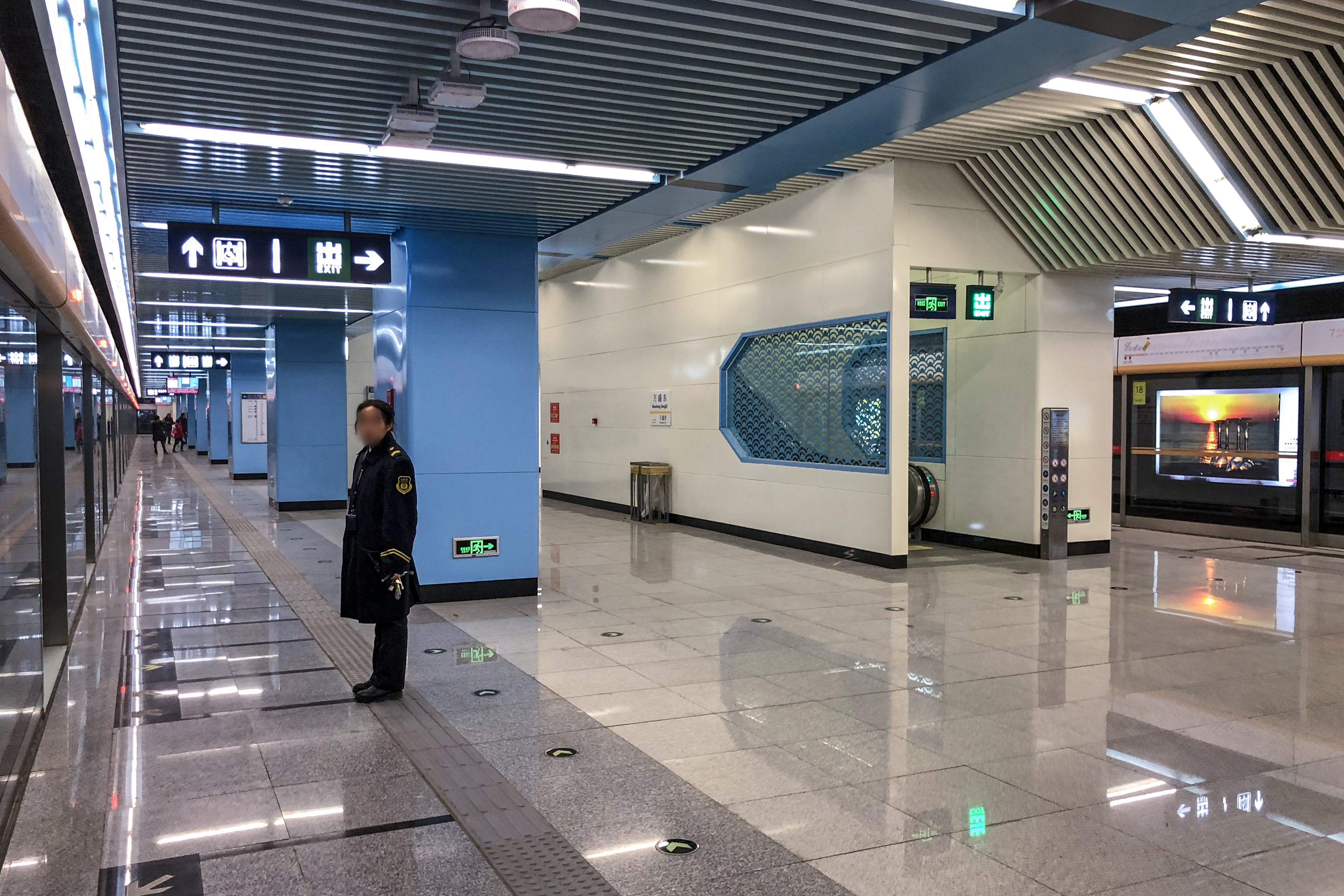 Man Shing East Station, which has a "clone" in Chongqing. Well, the former name of Wanshengdong Railway Station (47468) was Wansheng...